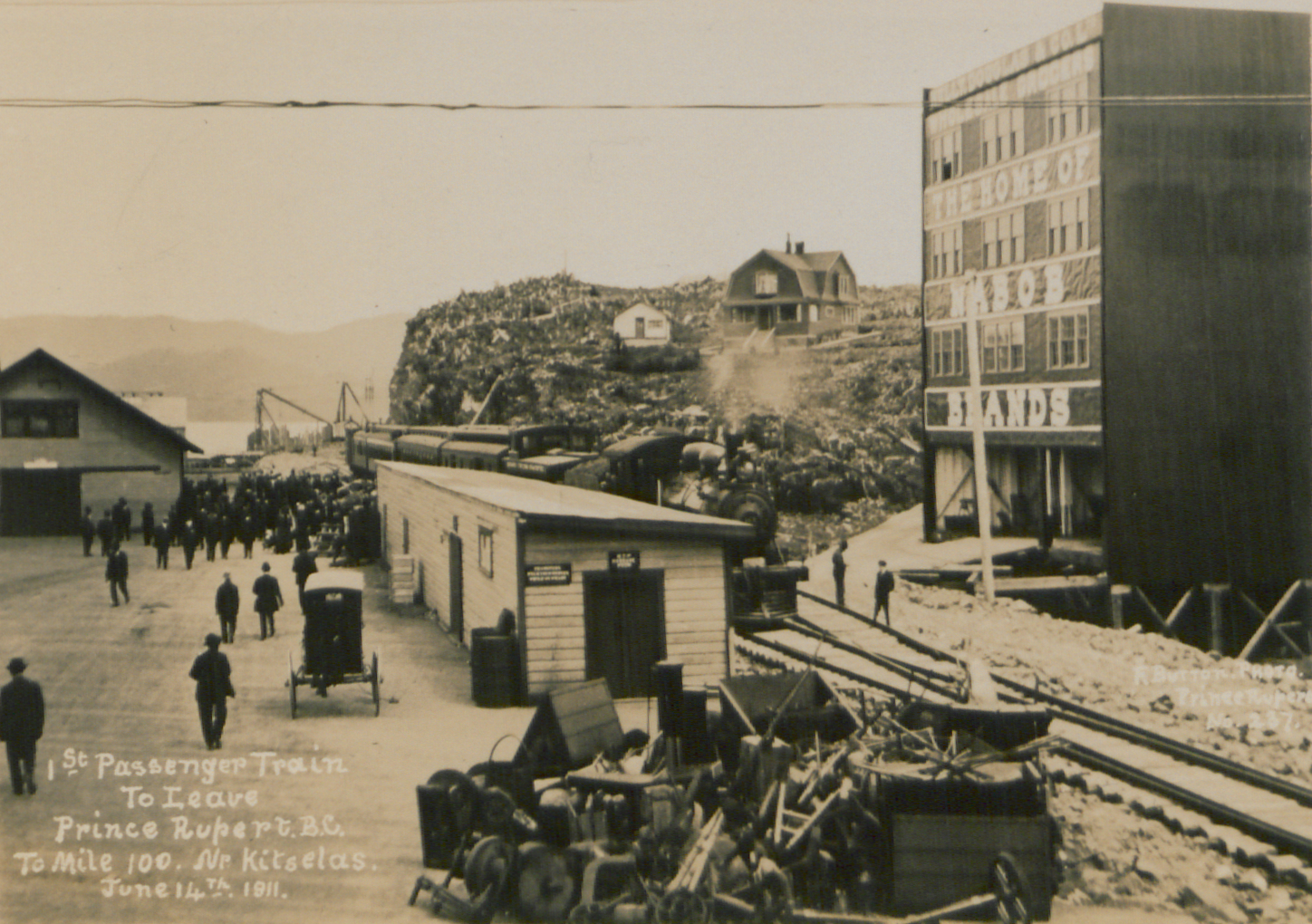 No. 240: GTP first train from Prince Rupert mile 45, June 14, 1911.